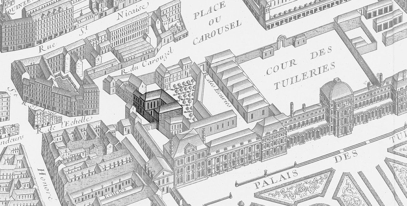 Detail from the 1739 Turgot map of Paris, showing the location of the Hôtel de Brionne